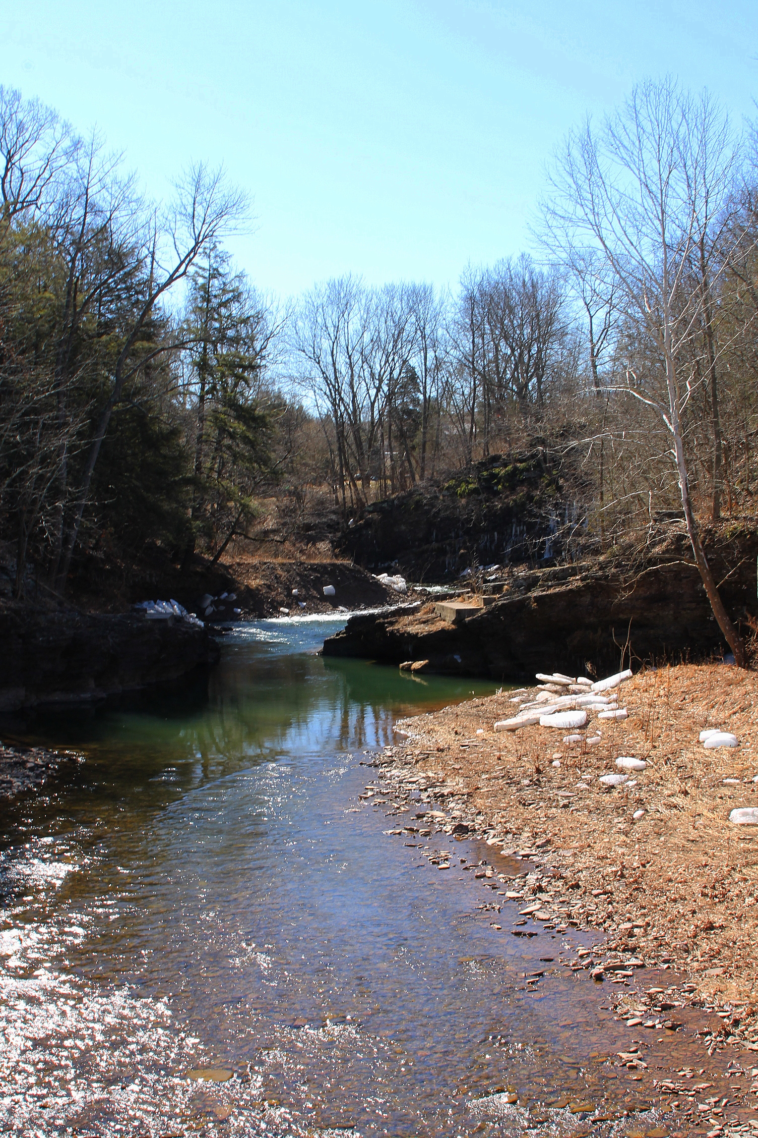 Roaring Creek looking upstream near its mouth